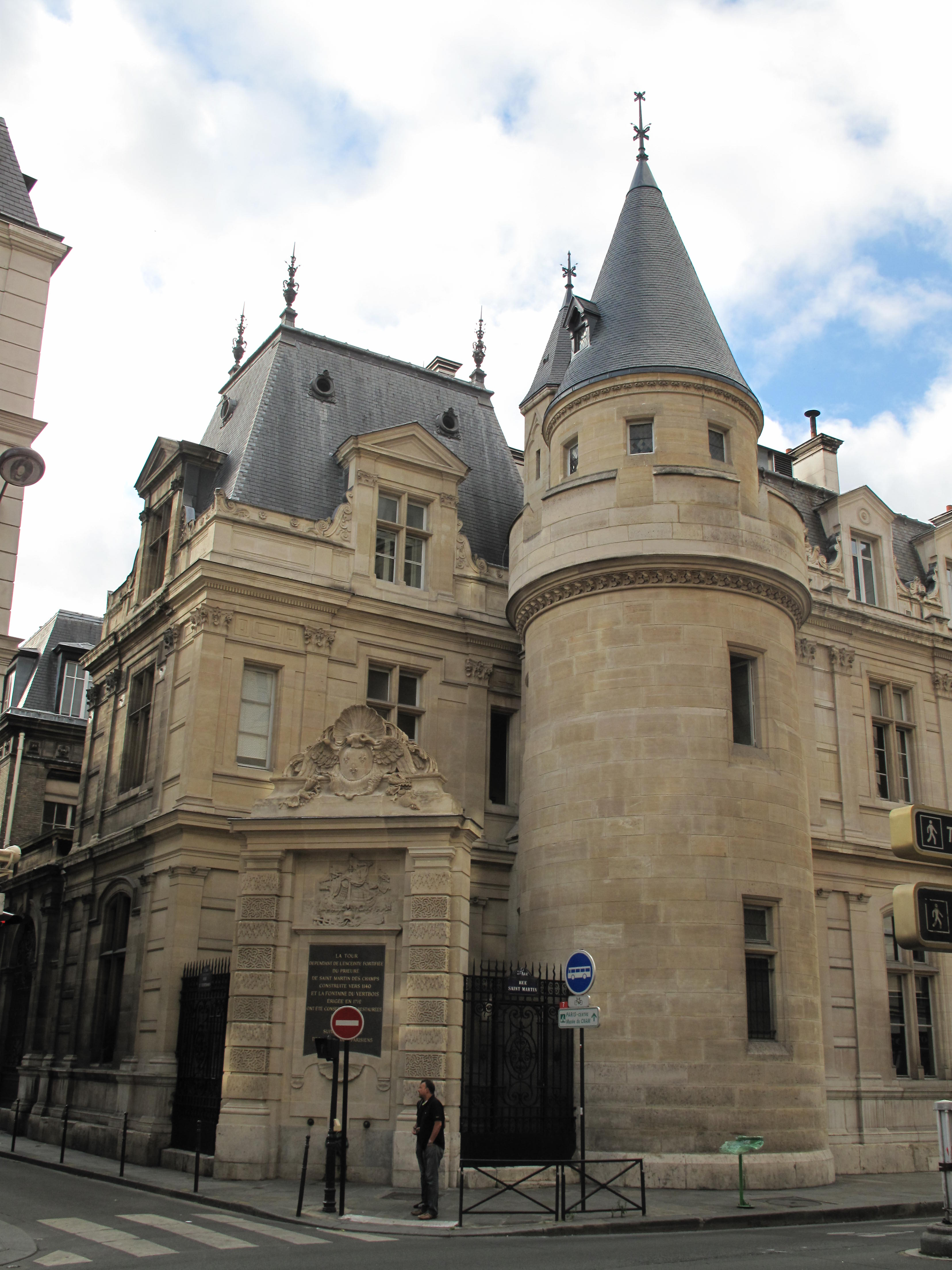 Old tower preserved of the prieuré Saint-Martin des Champs : Rue Saint-Martin, Paris 3rd arr. The tower is sometimes named tour du Vertbois from the name of a close street.